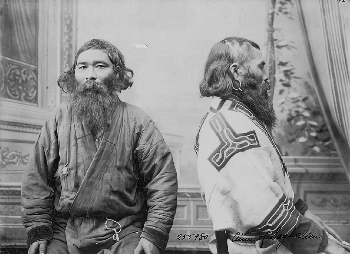 Portrait of two Ainu men from Sakhalin